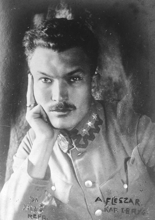 Albin Fleszar "Satyr"